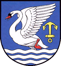 Coat of arms of Laboe Blasonierung: In Blau über silbernen Wellen im Schildfuß ein auffliegender, rot bewehrter silberner Schwan, links begleitet von einem gestürzten goldenen Anker.